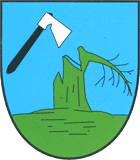 Pniówek COA